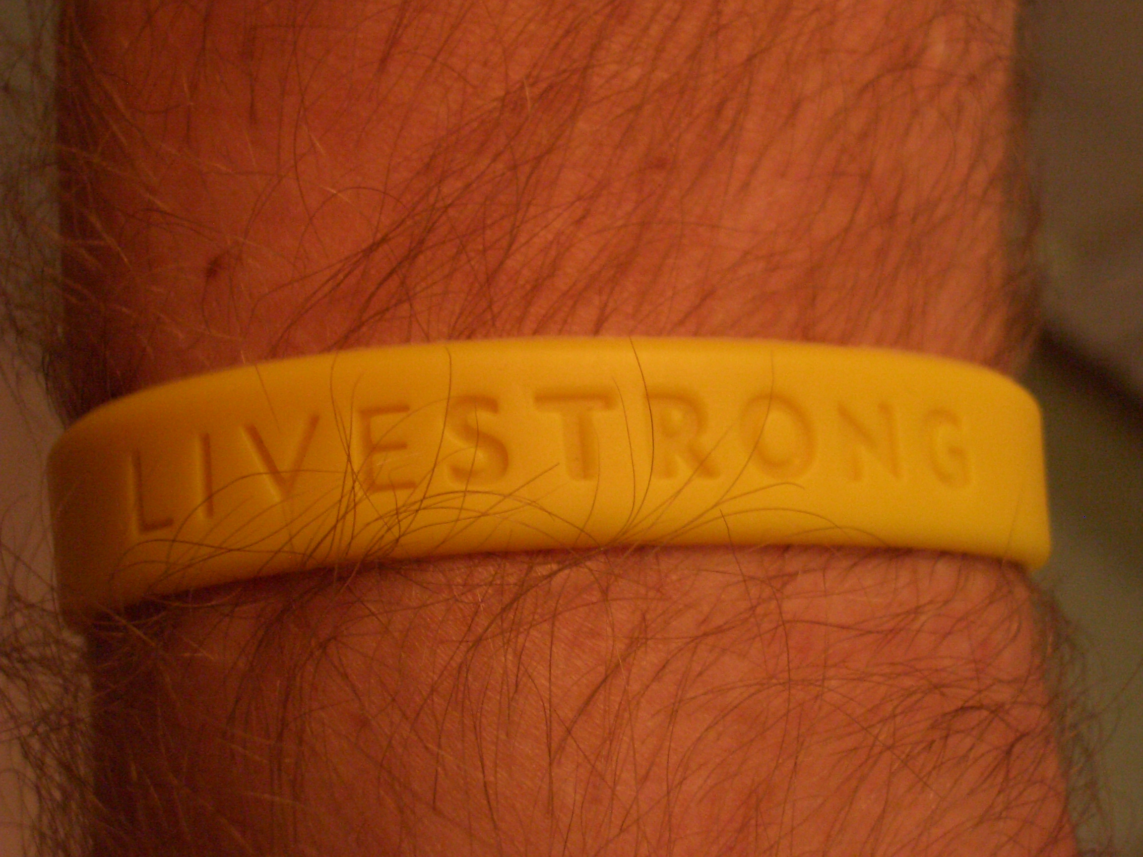 Photo of my wrist wearing a Livestrong wristband. Image is uploaded directly from the camera with no modification (other than a rename).